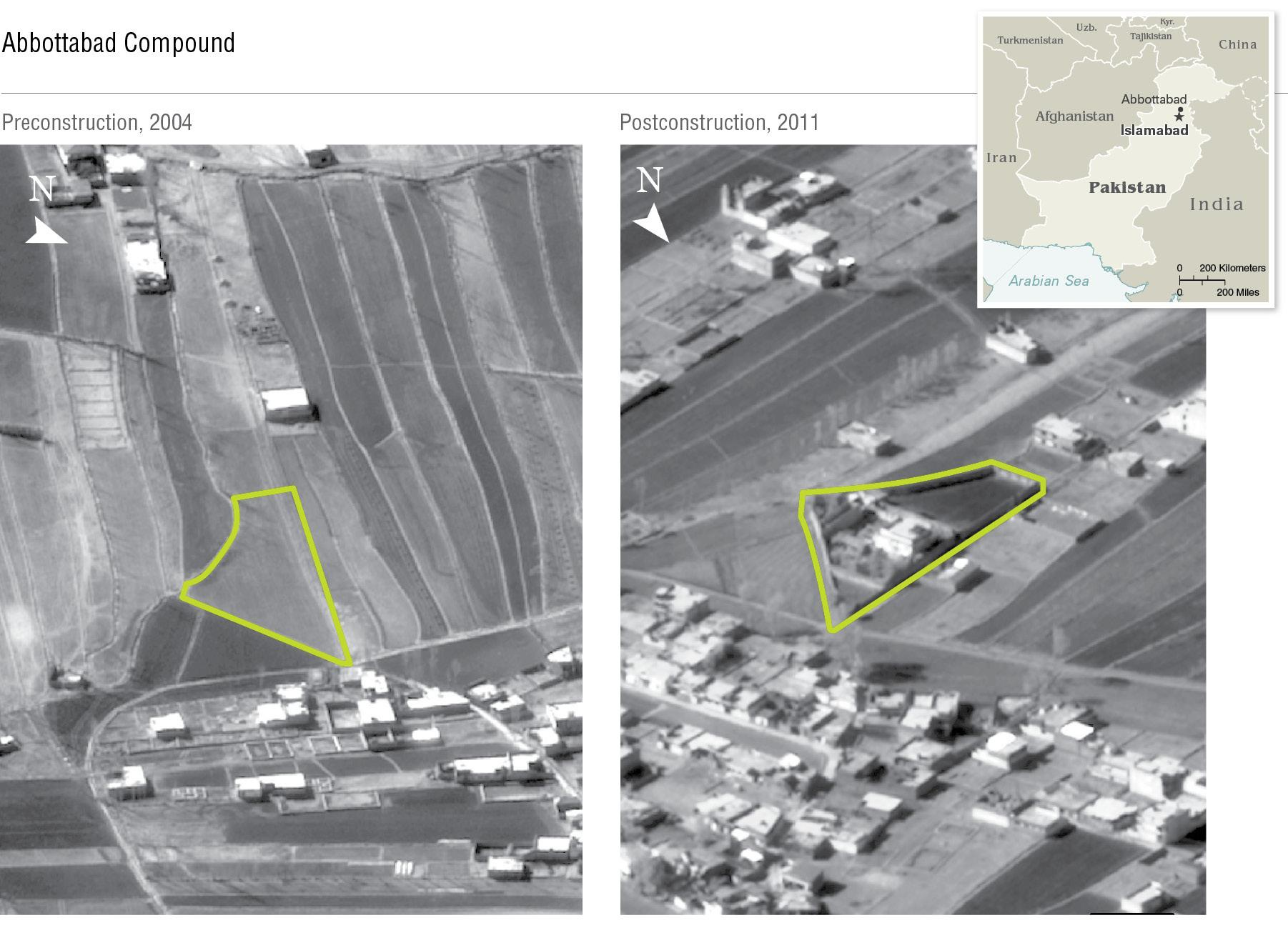 The compound site where Osama bin Laden was hiding before (Preconstruction, 2004) and after (Postconstruction, 2011) the construction.